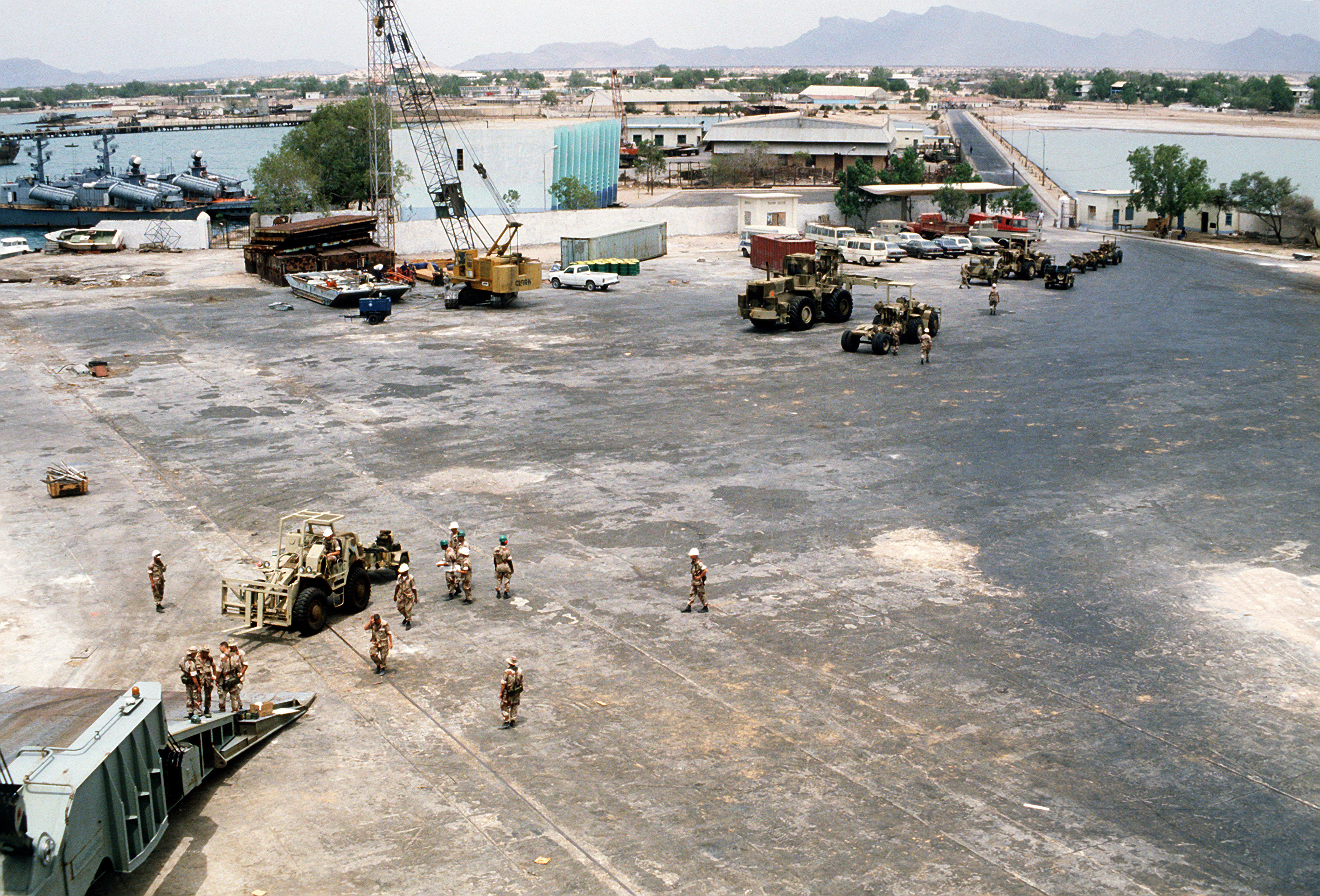 U.S. Marine Corps equipment is offloaded from the container ship SS LYRA during Exercise Eastern Wind '83, the amphibious landing phase of Exercise Bright Star '83. Two Somali navy project 205-ER type 21 missle boats (NATO code - Osa II Class fast attack craft) are visible in the upper left. The names of boats were №125 and unknown. Location: Berbera.